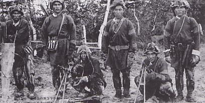 Uilta People (Ethnic group in Karafuto)